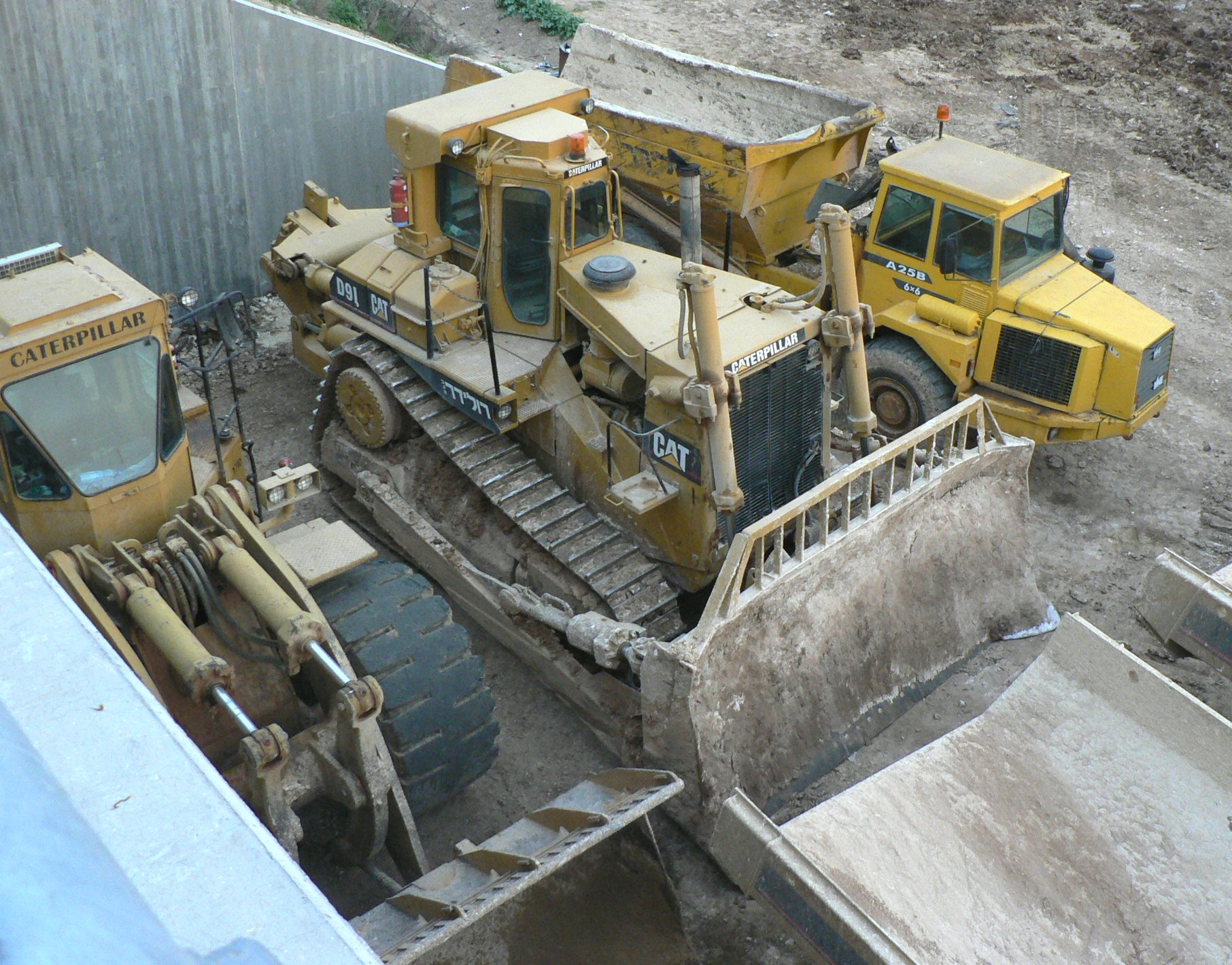 Left to right: Caterpillar (old, unknown model, possibly end-loader); CAT D9L bulldozer; Volvo A25B dump truck Author: MathKnight